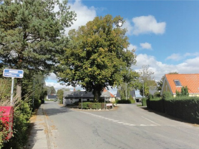 Stovring National Tree